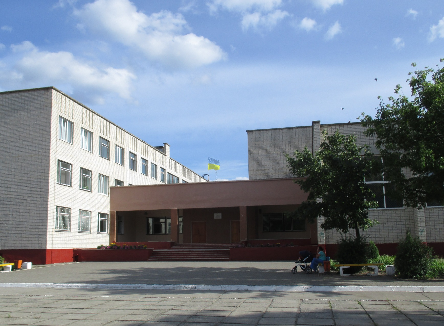 Netishyn school №4